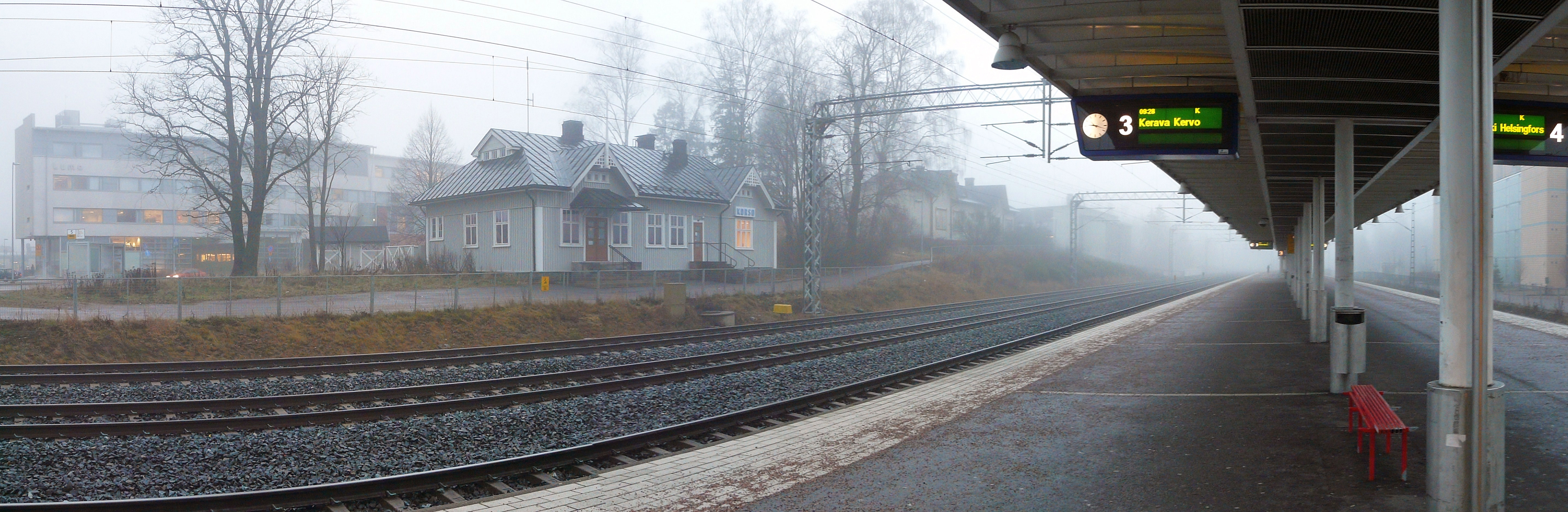 A view on the platform of Korso railway station in a foggy morning in 2009 November.